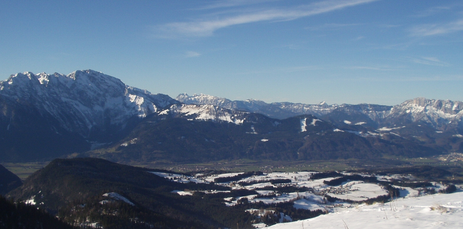 View of Sankt Koloman above Salzach valley.